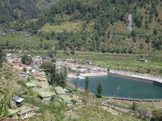 Panoramic Hill town of Barot. View of Barot as seen from Kohg village, Barot.